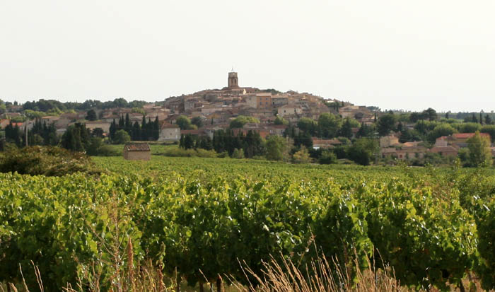 the town of Sablet in Vaucluse, France